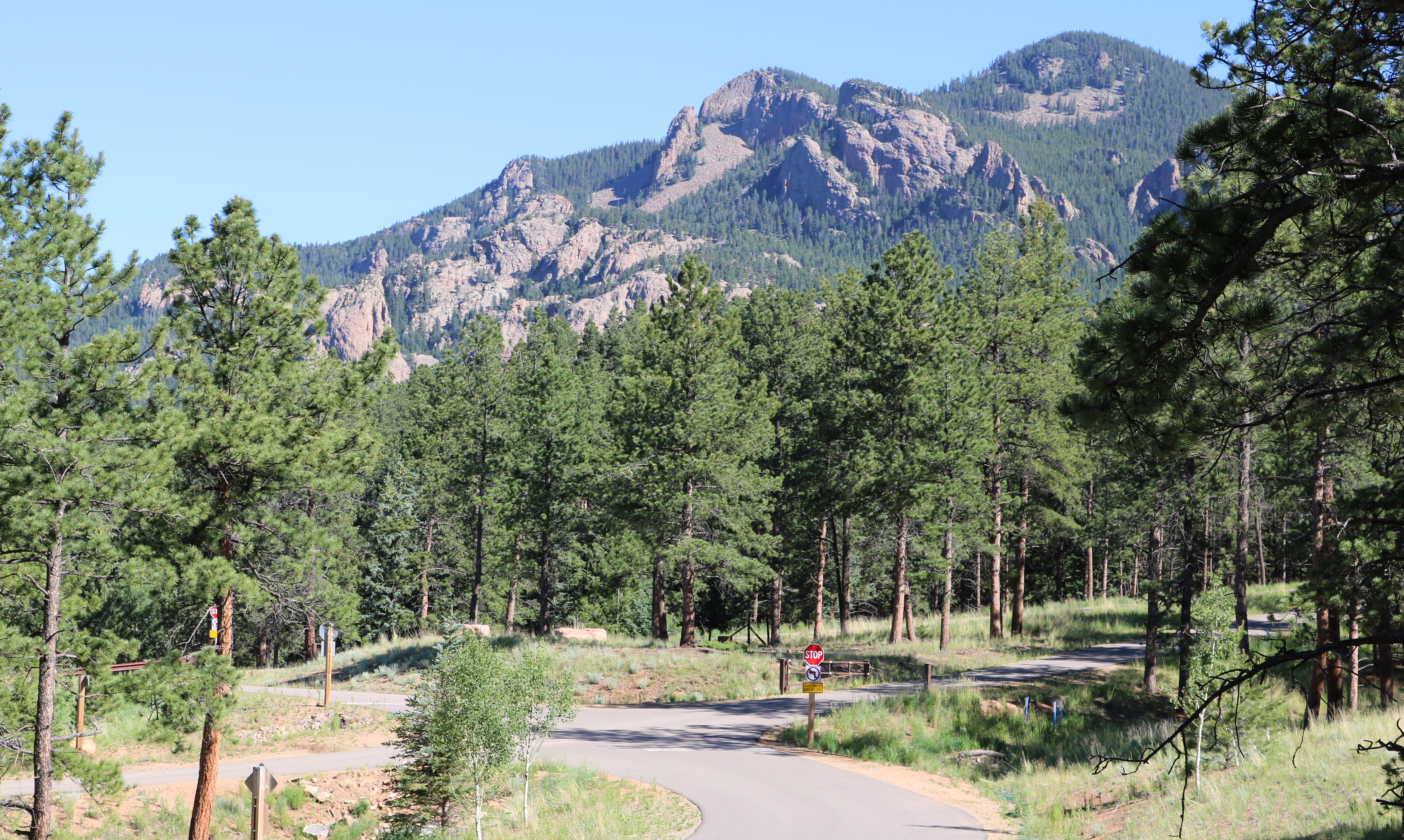 A view of the Staunton Rocks in Staunton State Park, in Jefferson County, Colorado.